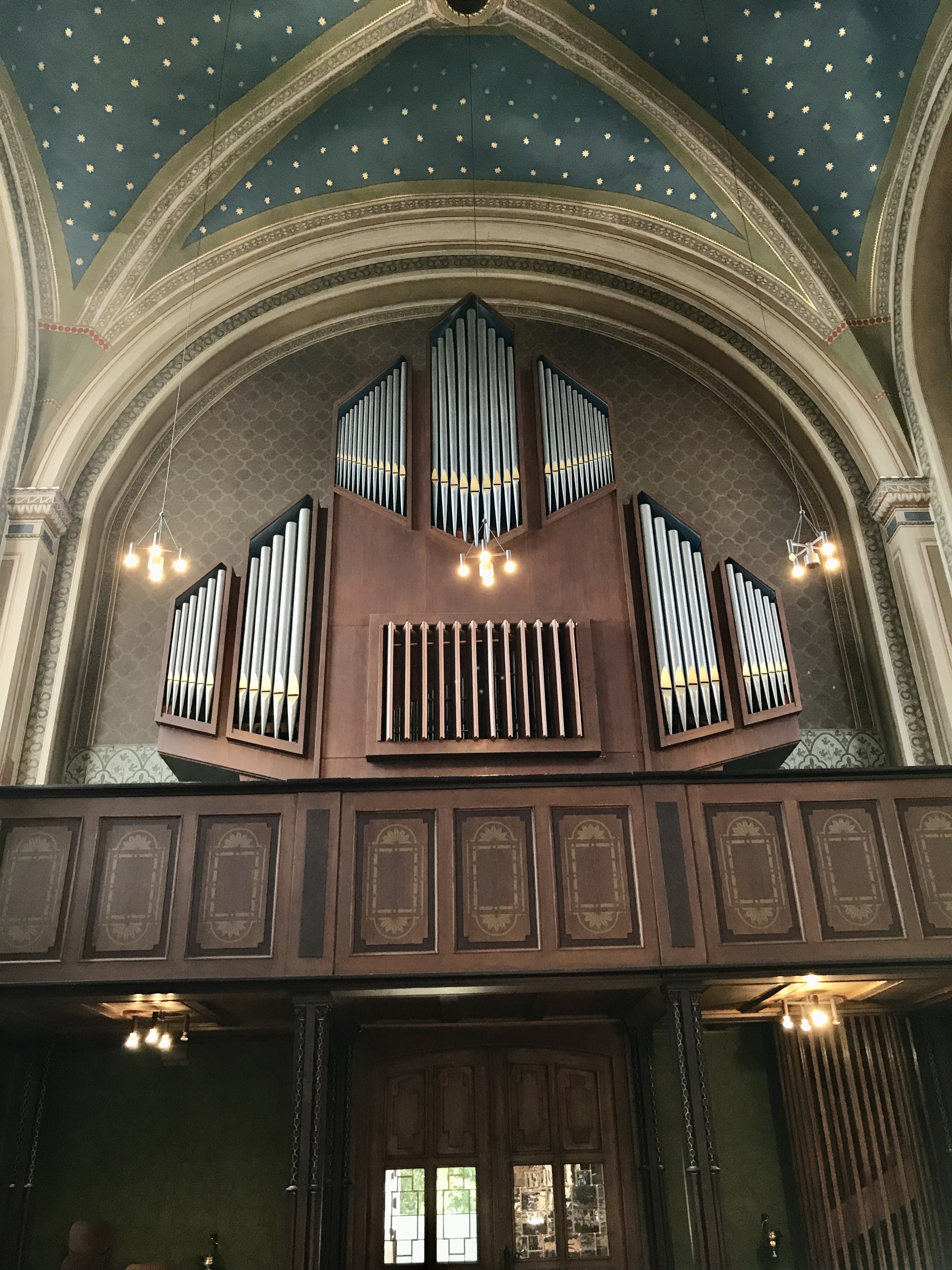 St. Aegidii Münster, Pipe Organ